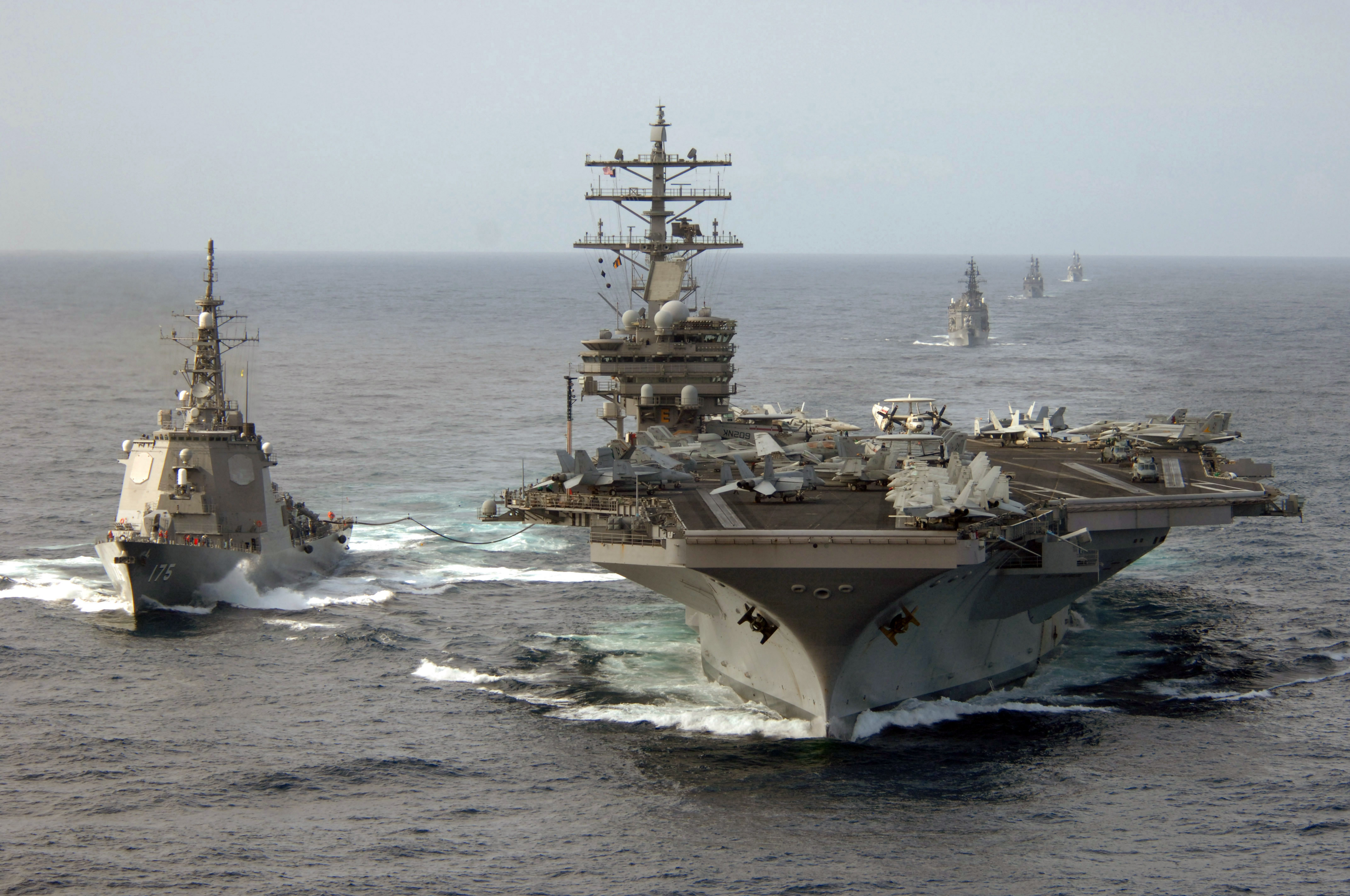 PHILIPPINE SEA (March 17, 2007) – Japan Maritime Self Defense Force (JMSDF) guided missile destroyer JS Myoko (DDG 175) pulls alongside USS Ronald Reagan (CVN 76) for a refueling at sea (RAS). Ronald Reagan Carrier Strike Group (RRCSG) took part in a passing exercise (PASSEX) with the JMSDF in the Philippine Sea March 16-18. RRCSG and embarked Carrier Air Wing Fourteen (CVW) 14 are underway in support of operations in the western Pacific. U.S. Navy photo by Chief Mass Communication Specialist Spike Call (RELEASED)